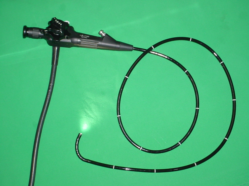 A photograph of a flexible endoscope